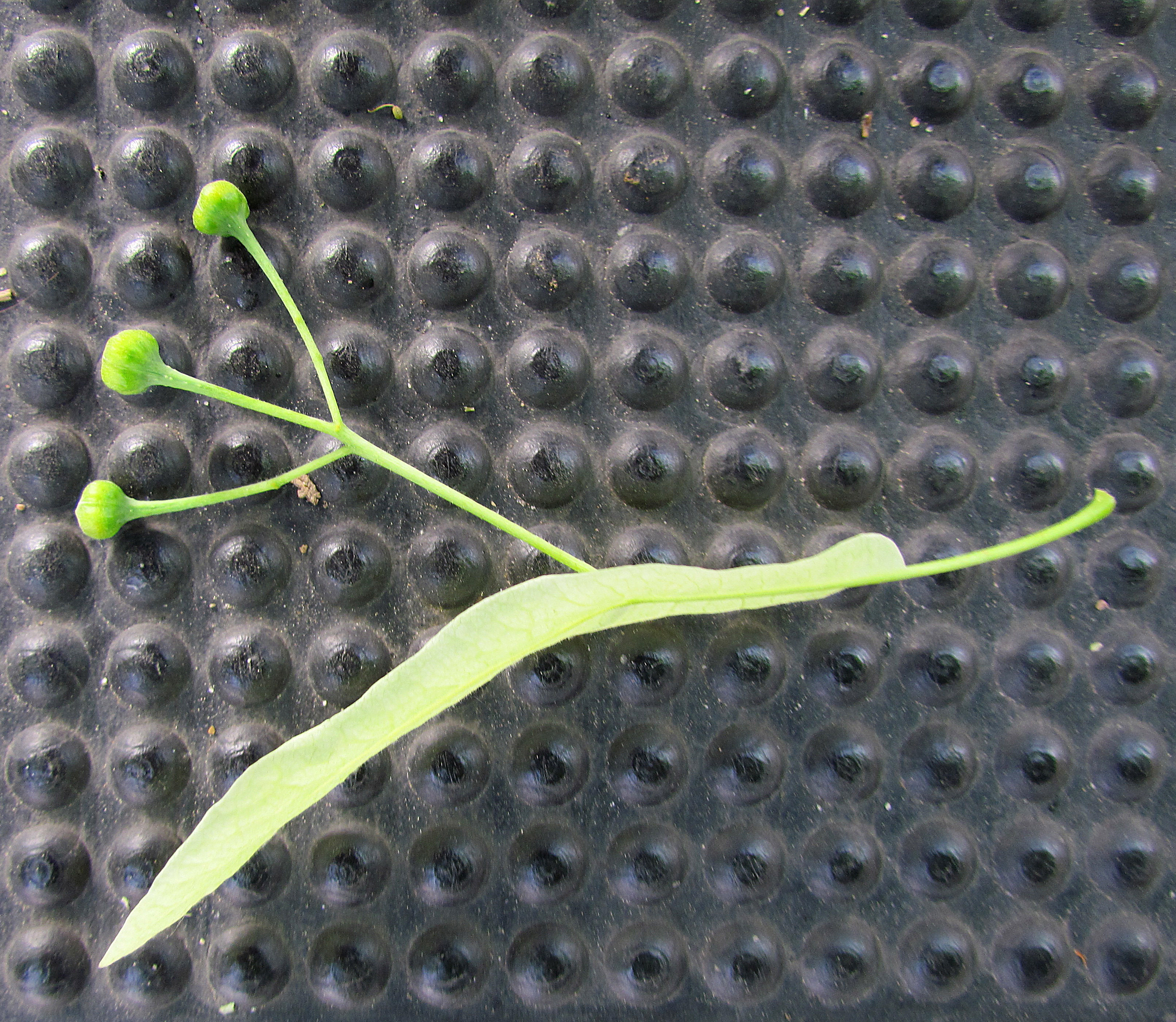 Tilia platyphyllos inflorescence